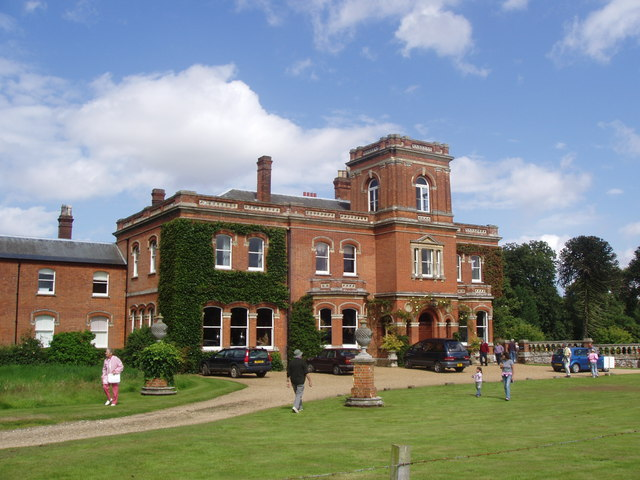 Gunthorpe Hall This is Gunthorpe Hall in North Norfolk. It was originally designed by Sir John Soane, the man who was the architect for the Bank of England in London in 1778. The plans for Gunthorpe Hall can now be seen in the Soane Museum in London. The main building itself was not completed until Victorian times and has 40 rooms with an adjoining wing and stable block. In the 1980s it had stood empty for seven years and restoration took a lot of time, effort and money. The gardens were also sadly neglected but today they are splendid. The Hall is a venue for holidays and functions, celebrations, weddings and parties. Anyone who likes fishing can buy day tickets for the lake. Gunthorpe, once a crumbling relic, has recaptured its former glory.